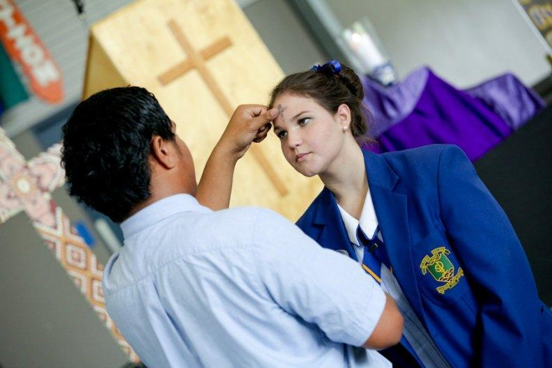 The school Ash Wednesday Ceremony.